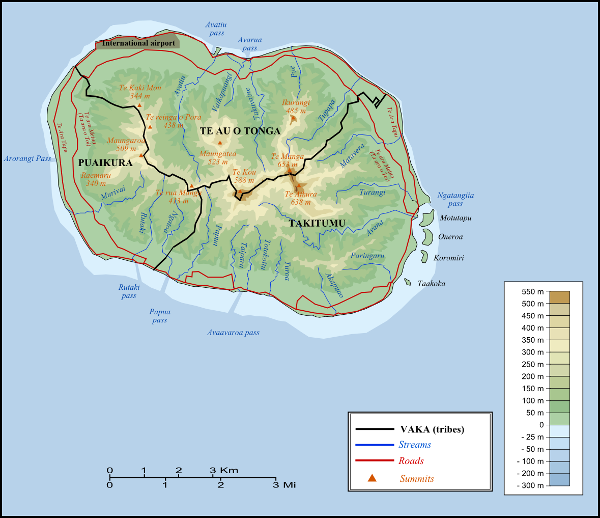 Map of Rarotonga